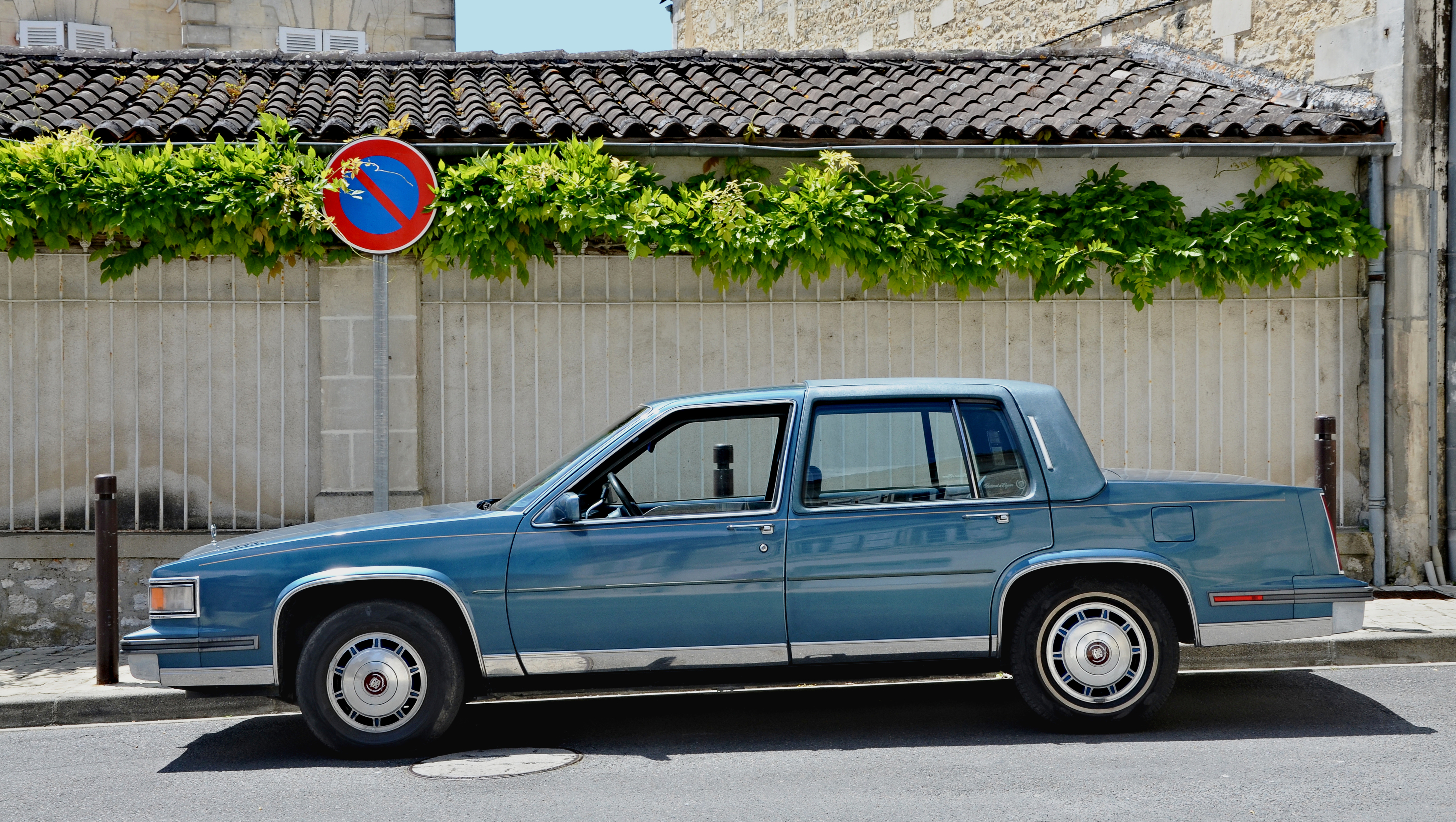 Cadillac Fleetwood (built : 1986), seen in Châteauneuf-sur-Charente, France.